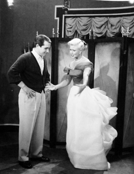 Publicity photo of Perry Como and Ginger Rogers at rehearsal for the television program The Perry Como Show (aka Perry Como's Kraft Music Hall).